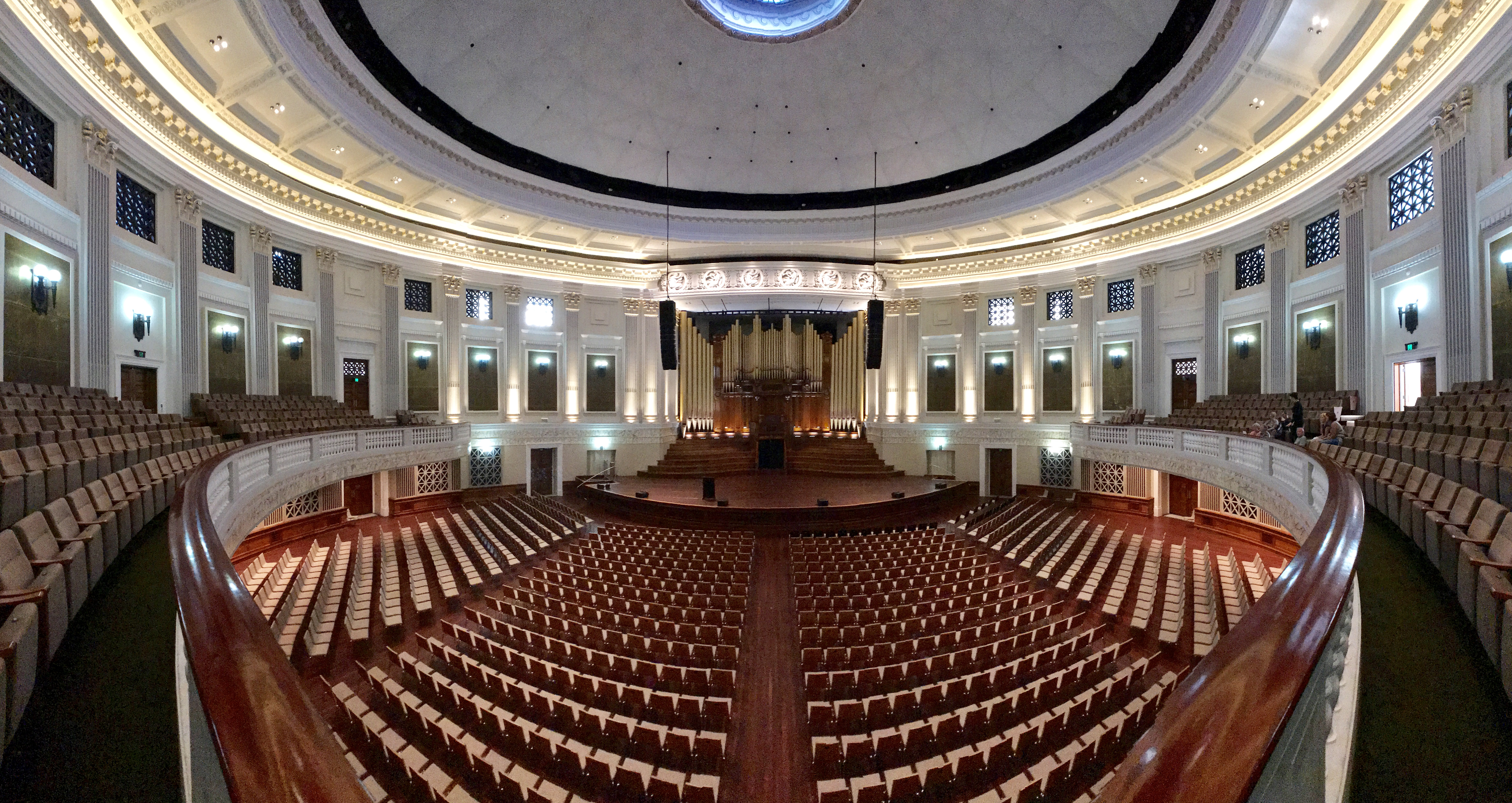 Auditorium at the Brisbane City Hall